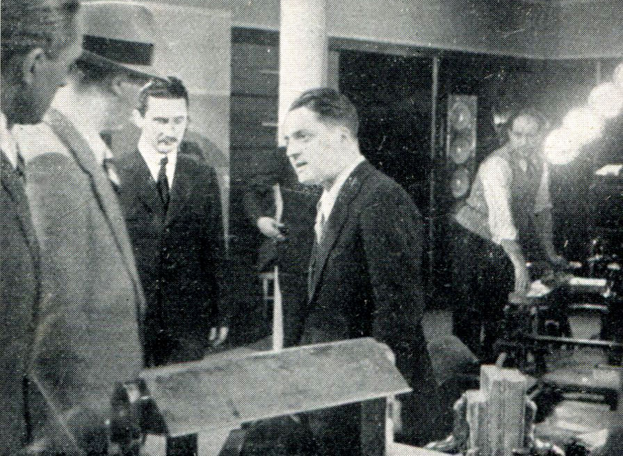 L'anonima roylott (regia di R. Matarazzo 1936) foto del regista sul set